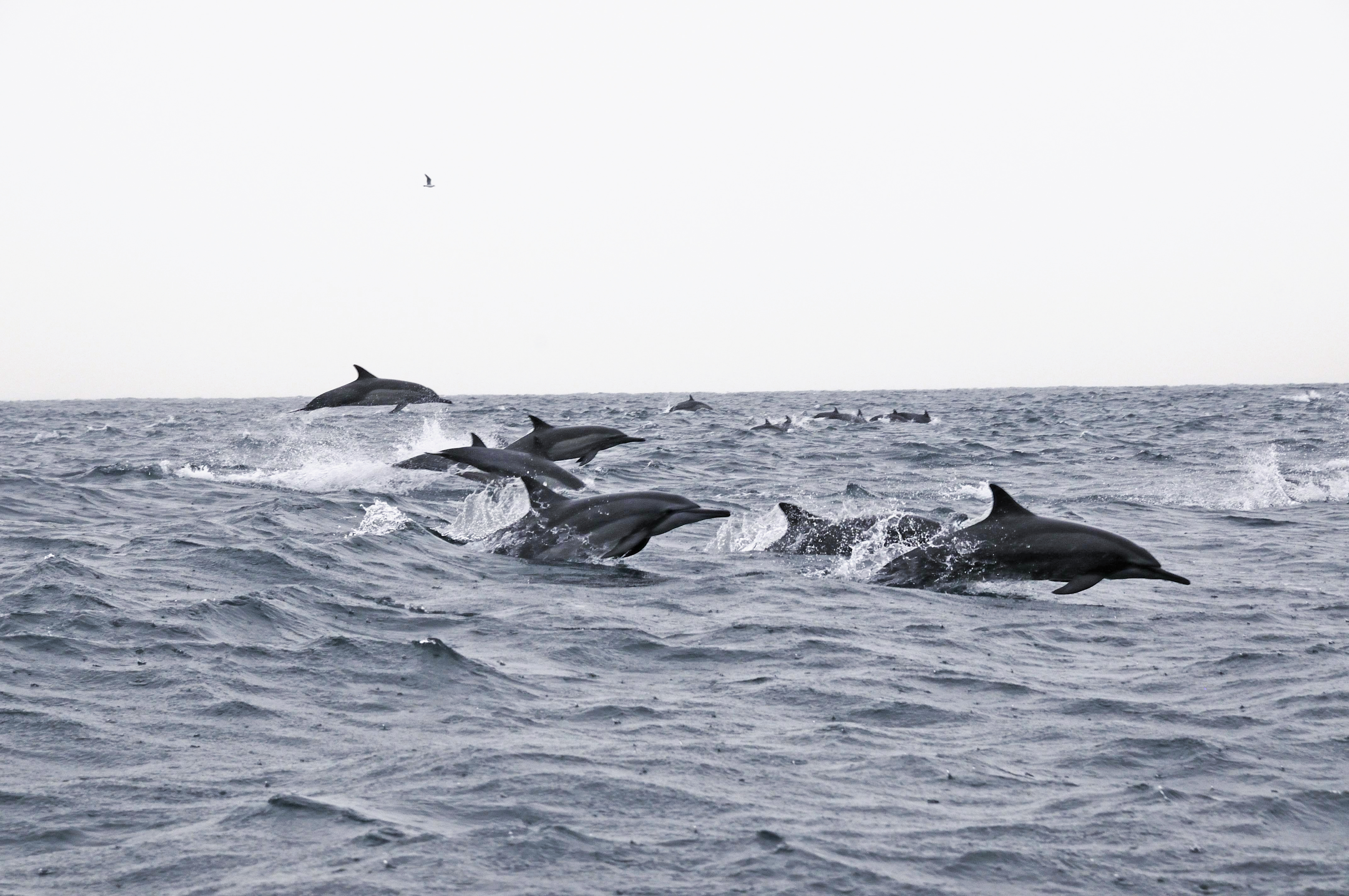 Dolphins in the Gulf of Oman